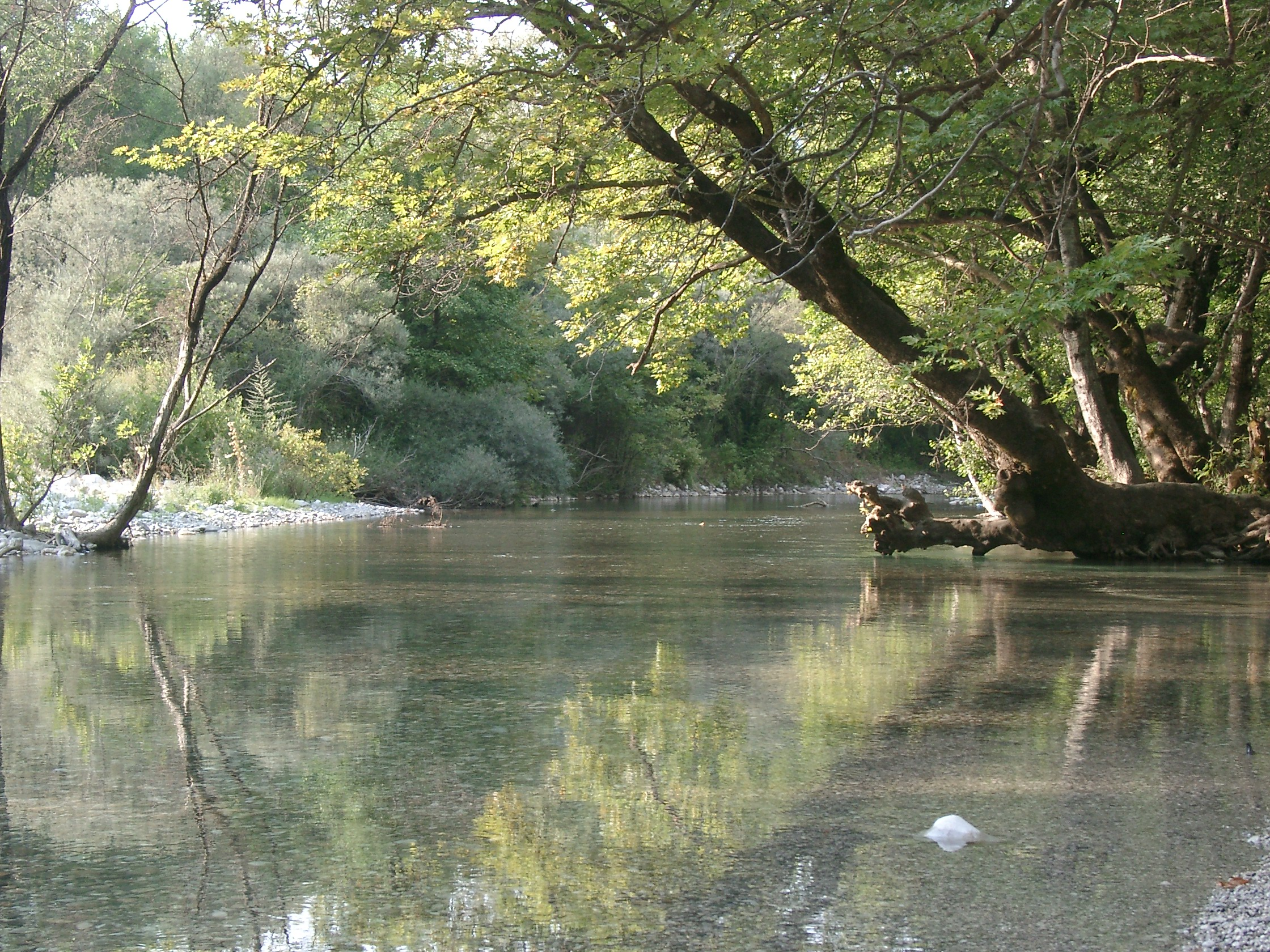 View on the river Vikos (Voidomatis), Ioannina prefecture, periphery of Epirus, Greece.